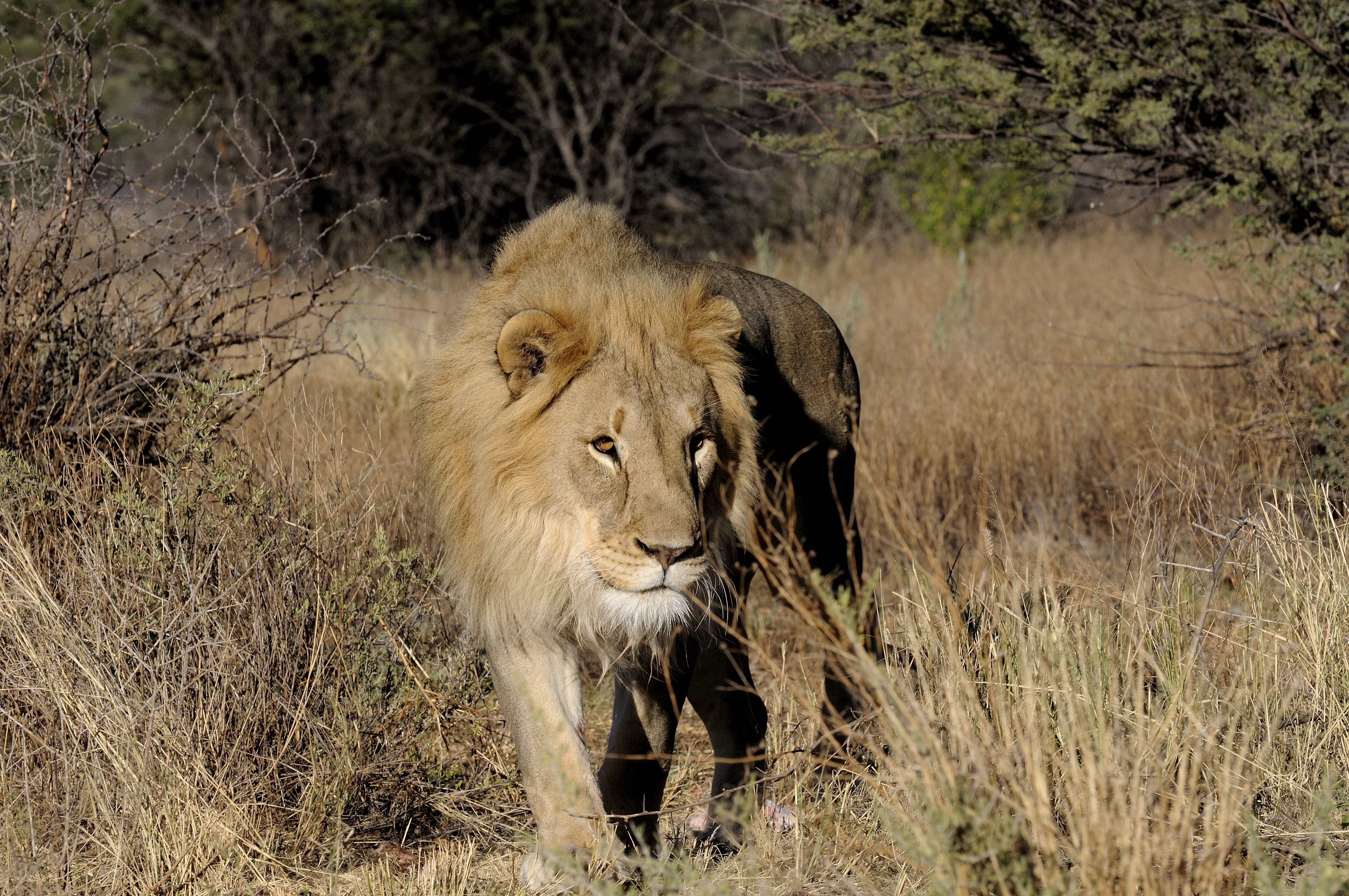 Lion (Panthera leo bleyenberghi), Kavita Lion Lodge/Namibia Africat Foundation